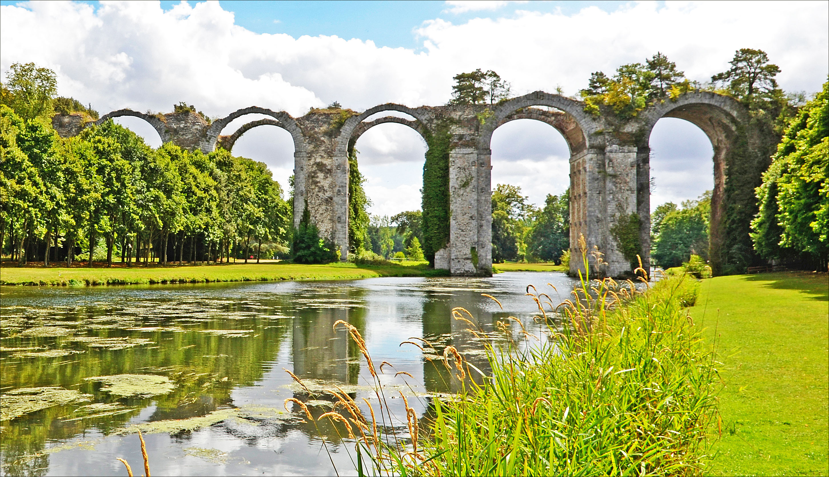 Marly Machines. Aqueduct of Maintenon.